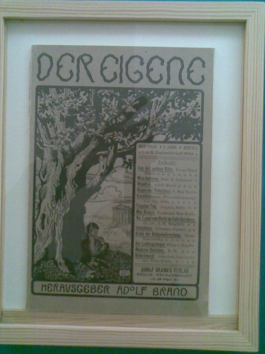 Der Eigene, Schwules Museum, Berlin.